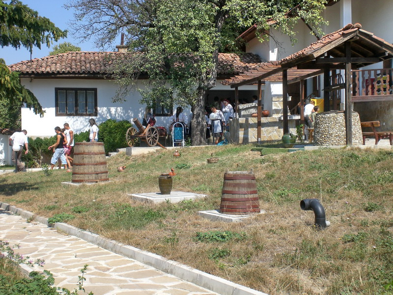 Ethnographic complex "Kapanska house" in Sadina, Popovo Municipality, Bulgaria